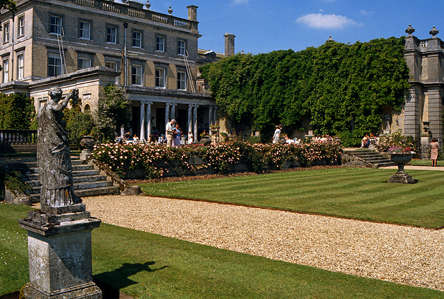 See title.